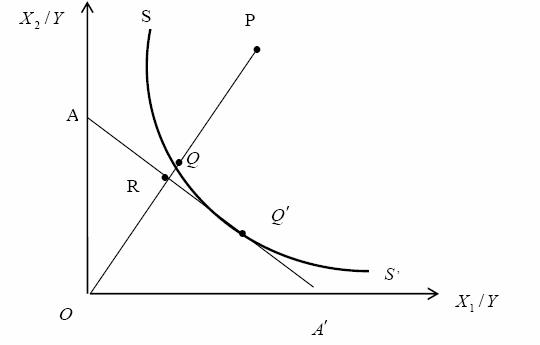 The Measurement of Productive Efficiency